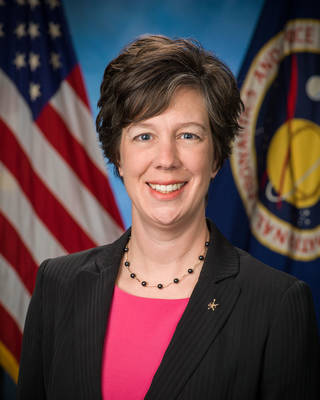 PHOTO DATE: 02-02-16 LOCATION: Bldg. 8, Room 183 - Photo Studio SUBJECT: Official executive portrait of Flight Director Holly E. Ridings PHOTOGRAPHER: BILL STAFFORD